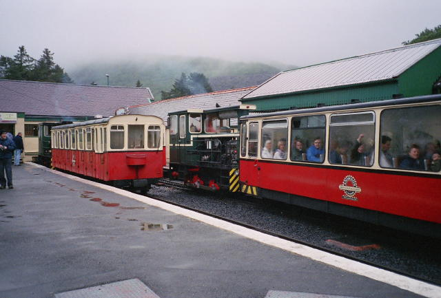 Snowdon Mountain Railway, Llanberis Station